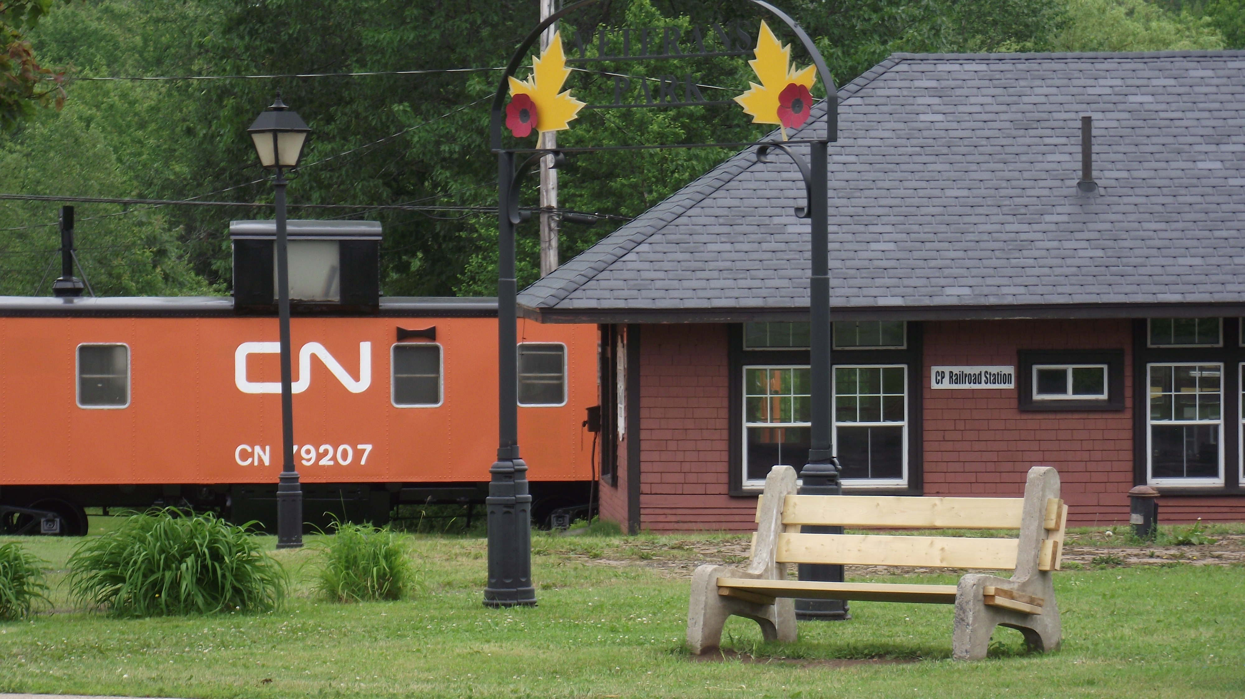 View of the Minto Museum and display train caboose as seen across Veterans Park in the summer of 2013, Minto, New Brunswick.